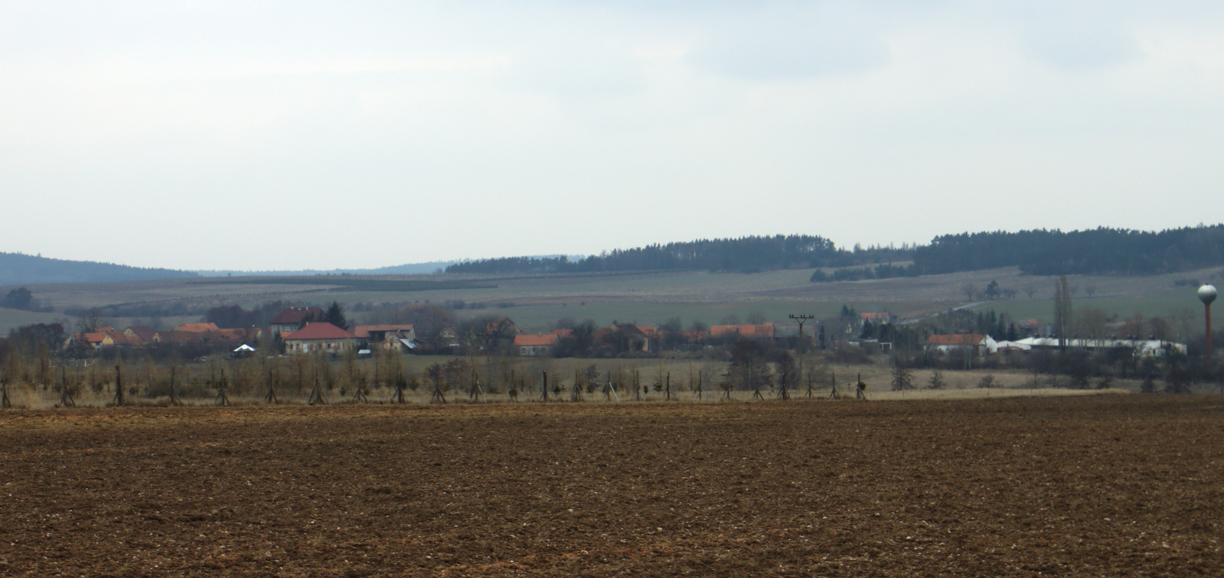 View of the town of Řeřichy in Rakovník District, Central Bohemian Region, CZ